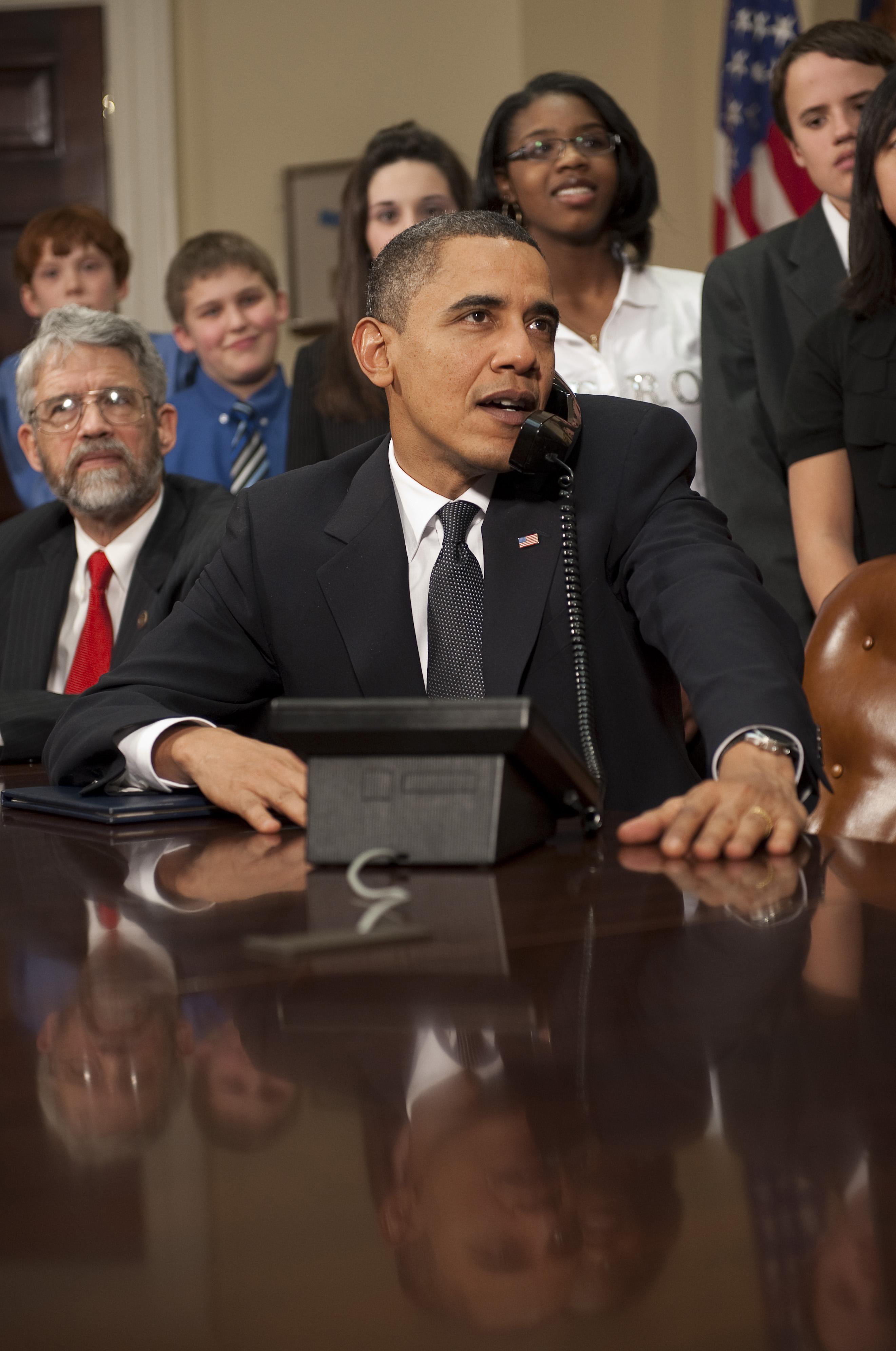 “And so we just wanted to let you know that the amazing work that's being done on the International Space Station not only by our American astronauts but also our colleagues from Japan and Russia is just a testimony to the human ingenuity; a testimony to extraordinary skill and courage that you guys bring to bear; and is also a testimony to why continued space exploration is so important, and is part of the reason why my commitment to NASA is unwavering,” said President Barack Obama during a call to the crew currently aboard the International Space Station. President Obama was accompanied by White House Science Adviser John Holdren, left and middle school students in the Roosevelt Room of the White House during the call.